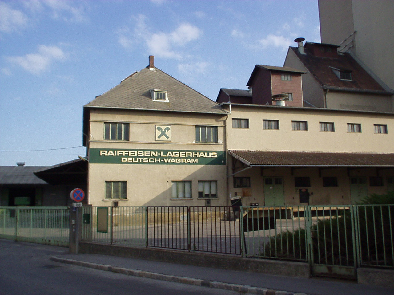 Lagerhaus Wagram